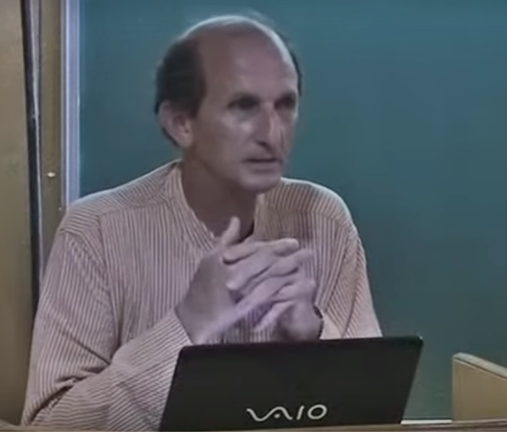 Michel Danino taking a lecture at IIT Kanpur